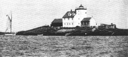 Fulehuk lighthouse, Vestfold